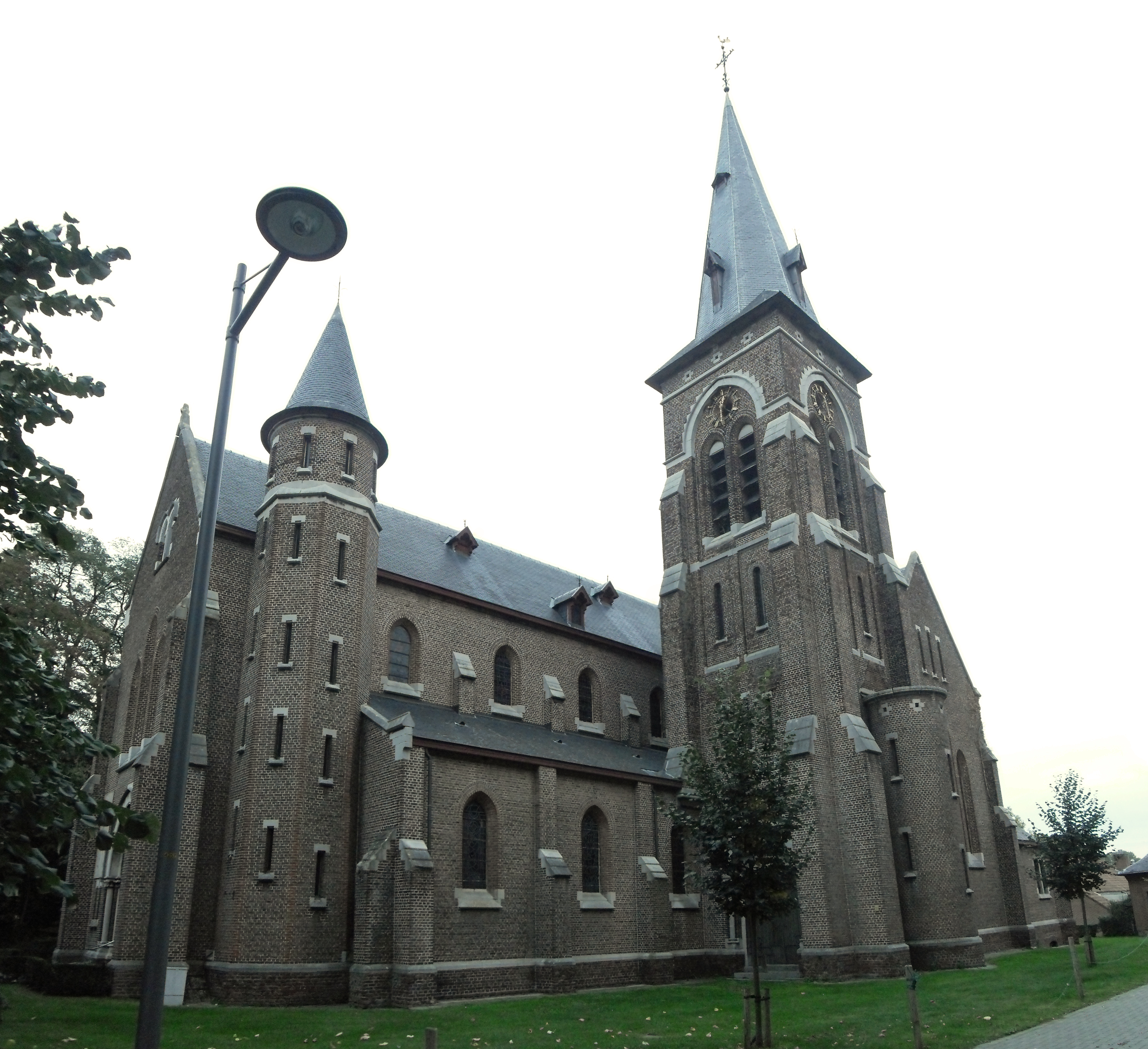 Parish church Onze-Lieve-Vrouw-Hemelvaart (Our-Lady-Assumption) - Liezele - Puurs - Province Antwerp - Flanders - Belgium